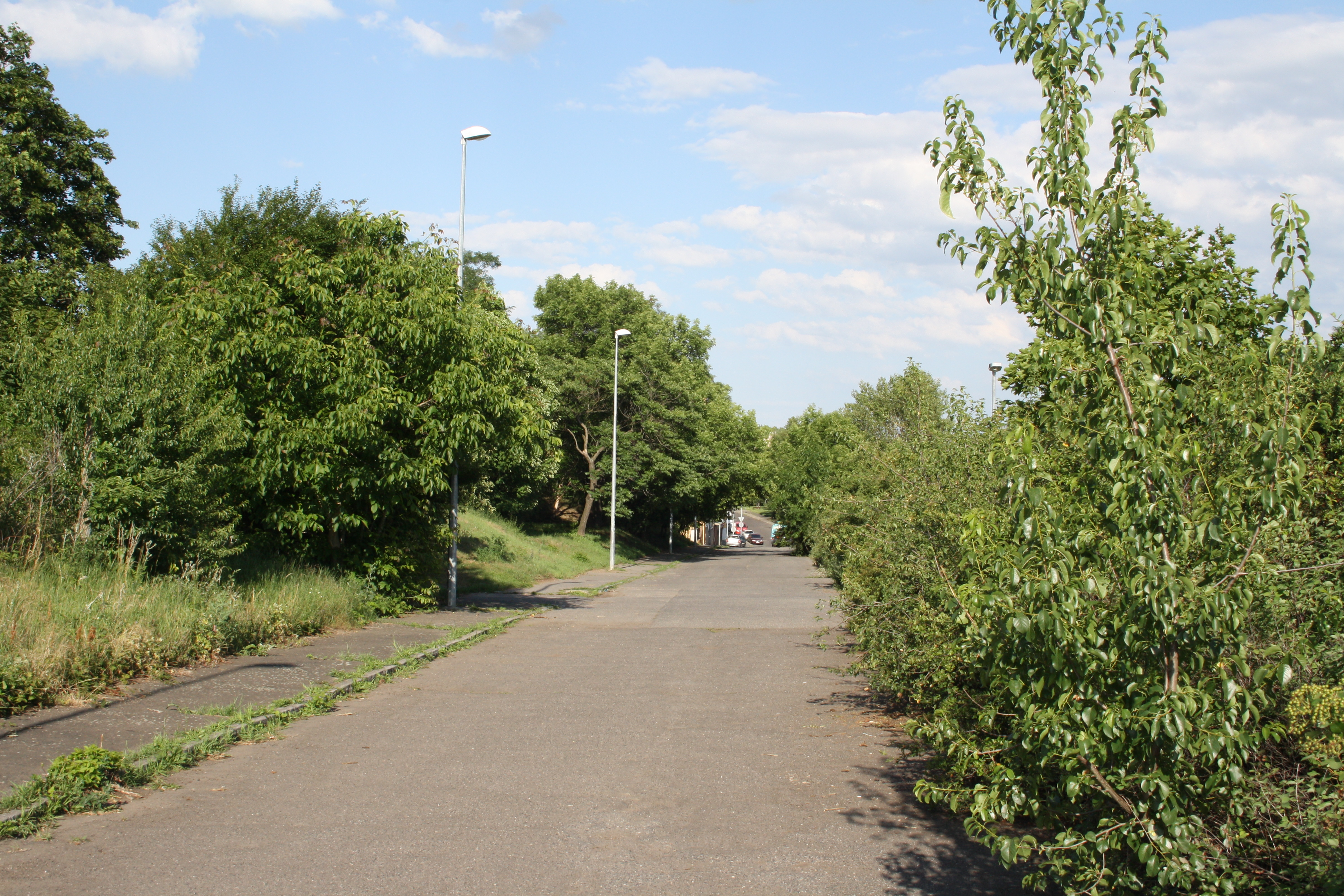 Kandertova, Praha - Liben, wiev from Korabske schody